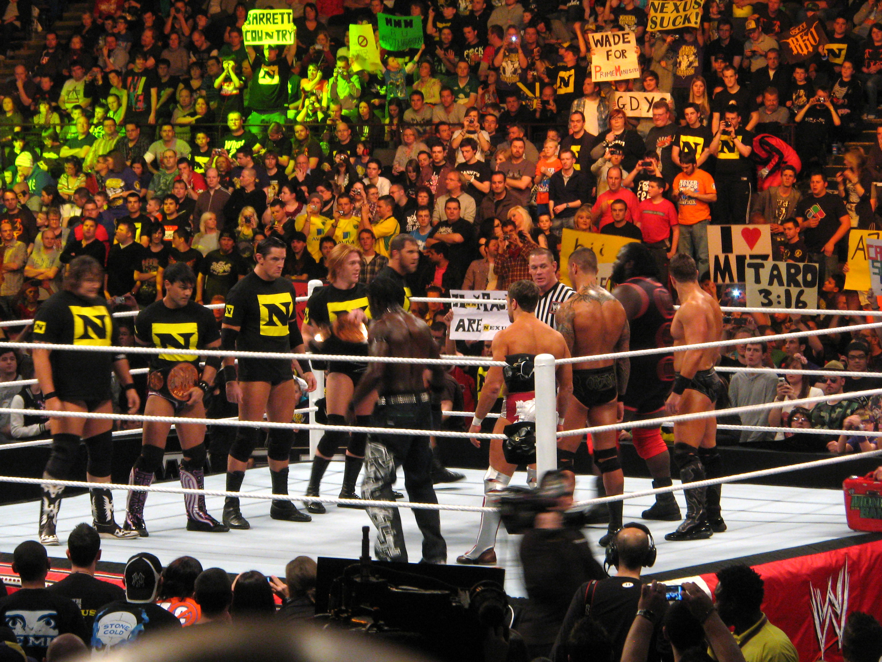 The Nexus (Husky Harris, Justin Gabriel - one-half of the WWE Tag Team Champions, Wade Barrett, Heath Slater - the second half of the WWE Tag Team Champions, and Michael McGillicutty) face off against R-Truth, Daniel Bryan, Randy Orton, The Miz and Mark Henry, with John Cena in the middle acting as the referee.